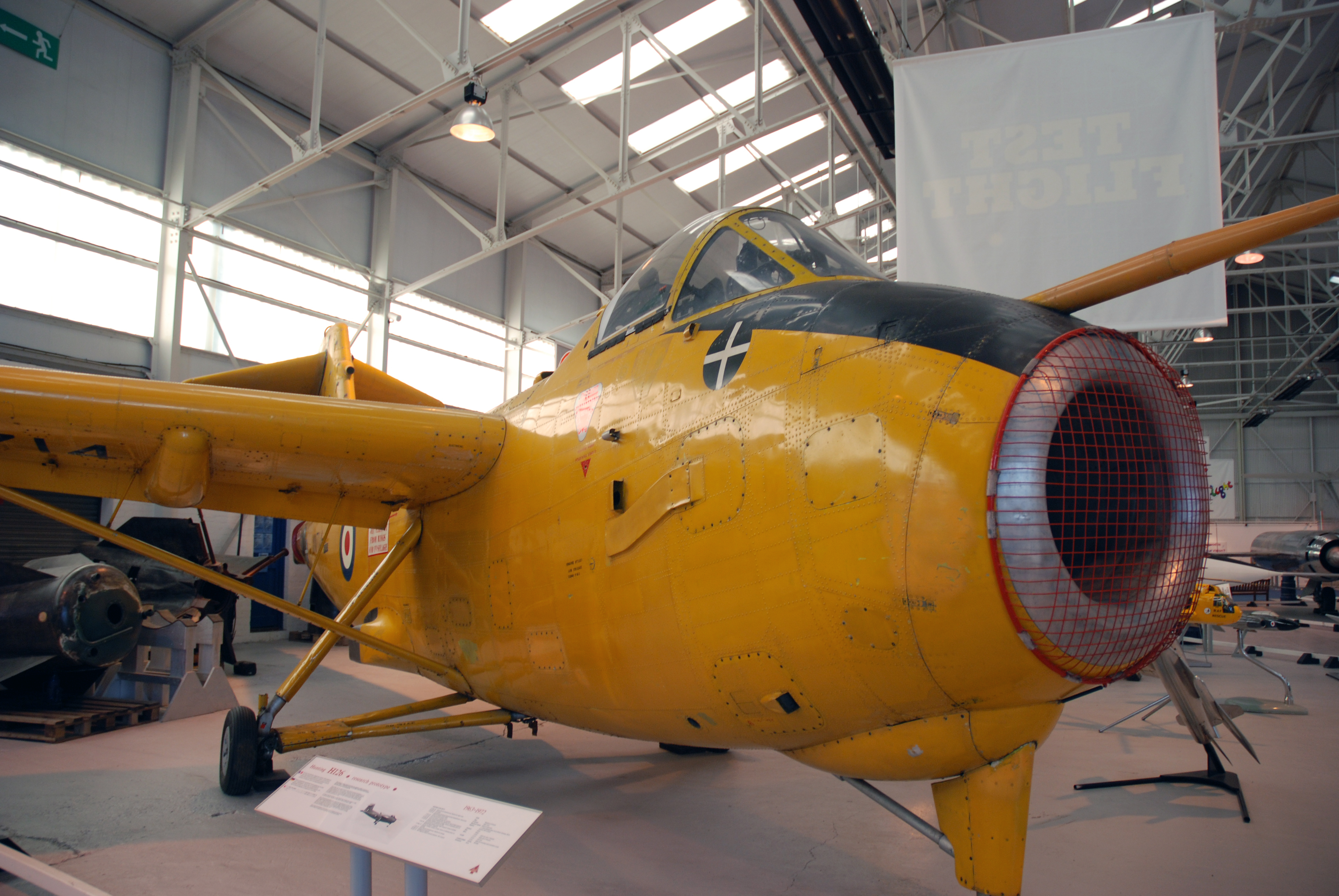 Cosford museum Oct 2007